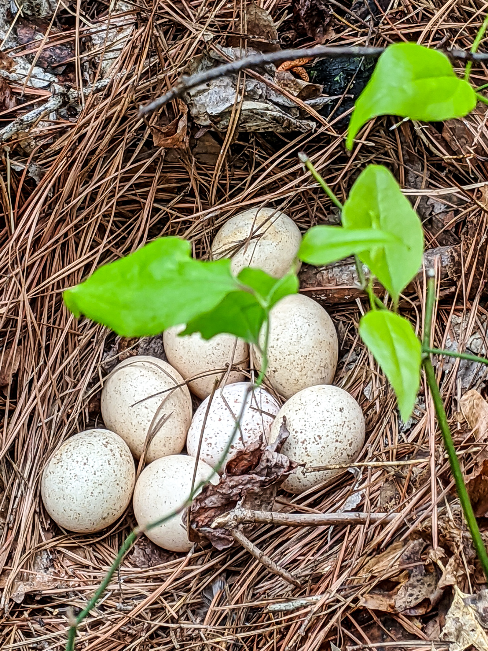 Wild turkey nest found in Nelson County, Virginia